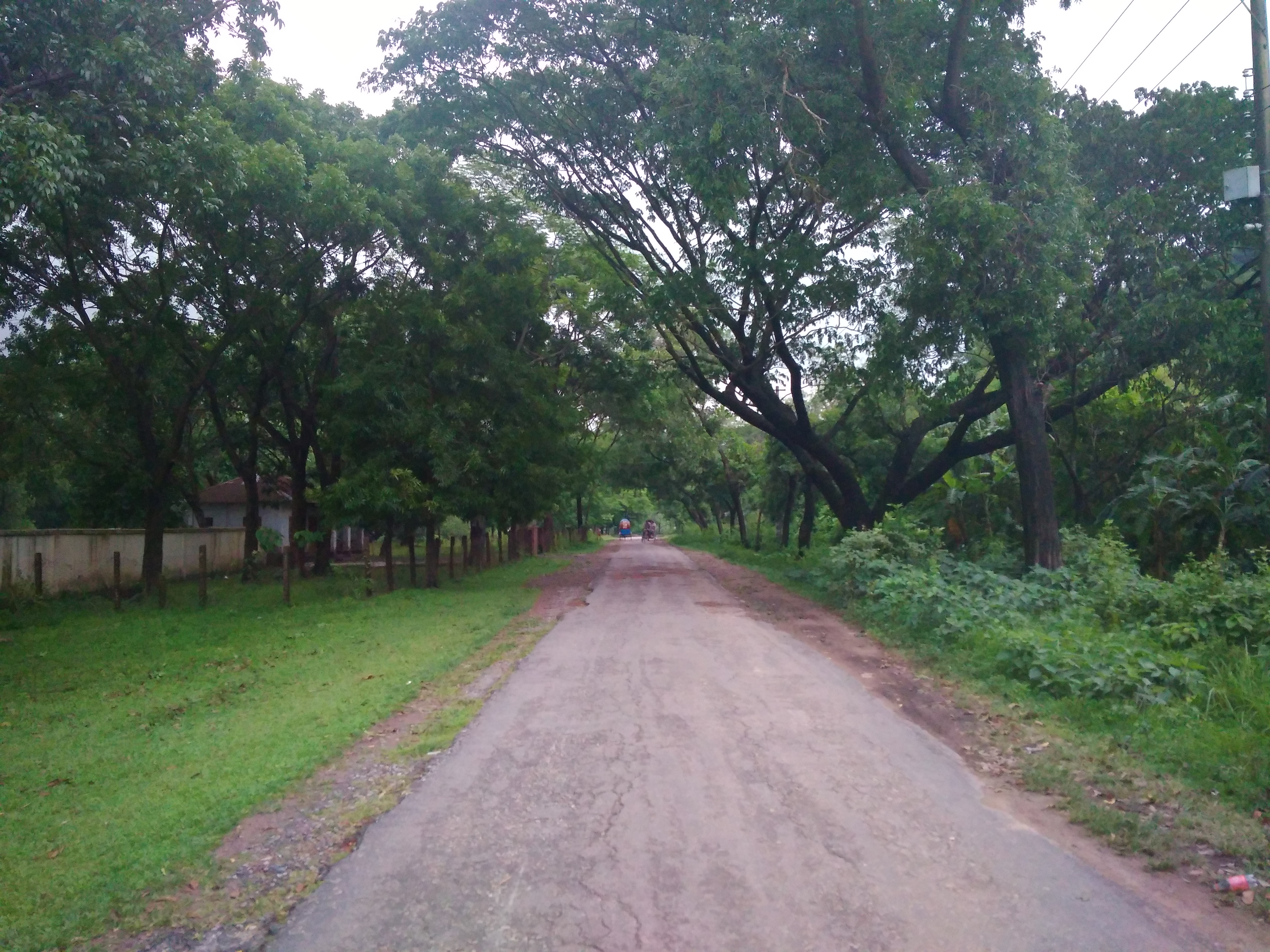 It is an image of Chittagong Development Area near Fouzdarhat. It is actually a residencial area planned by CDA.